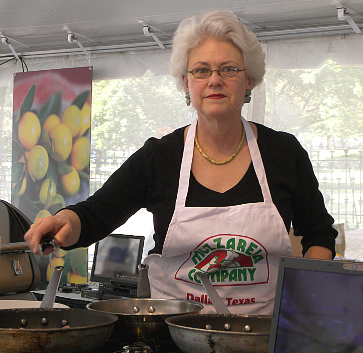 Paula Lambert at the 2007 Texas Book Festival, Austin, Texas, United States.